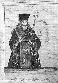 Sophronius of Vratsa (1739-1813). From the Bulgarian Wikipedia and eventually from an own work of the writer.